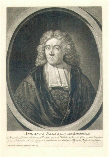 Adriaan Reland (1676-1718), Dutch scholar, cartographer and philologist.